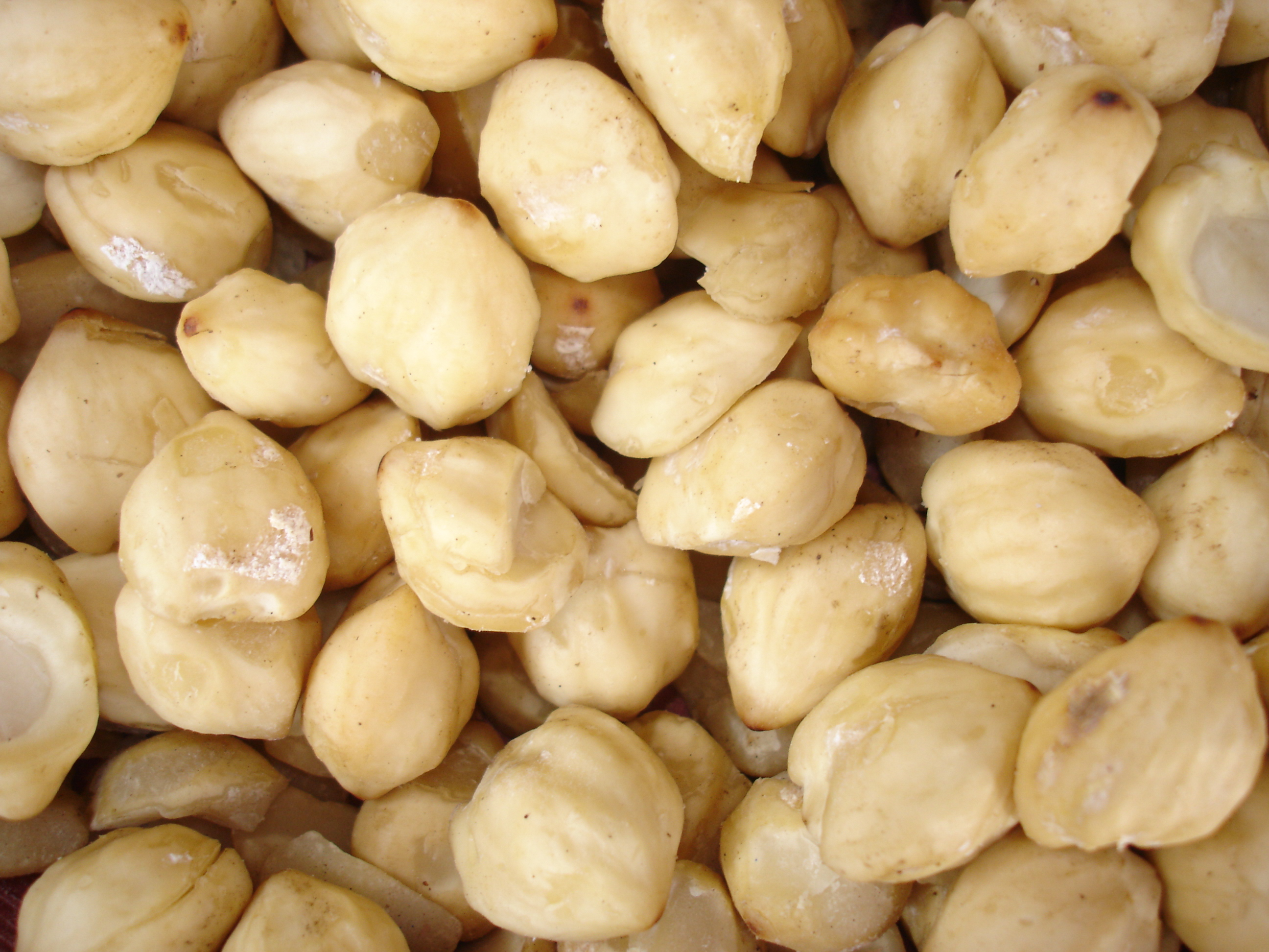 shelled nuts of the candlenut tree (Aleurites moluccana) at the Ereke market, northern Buton Island, Indonesia